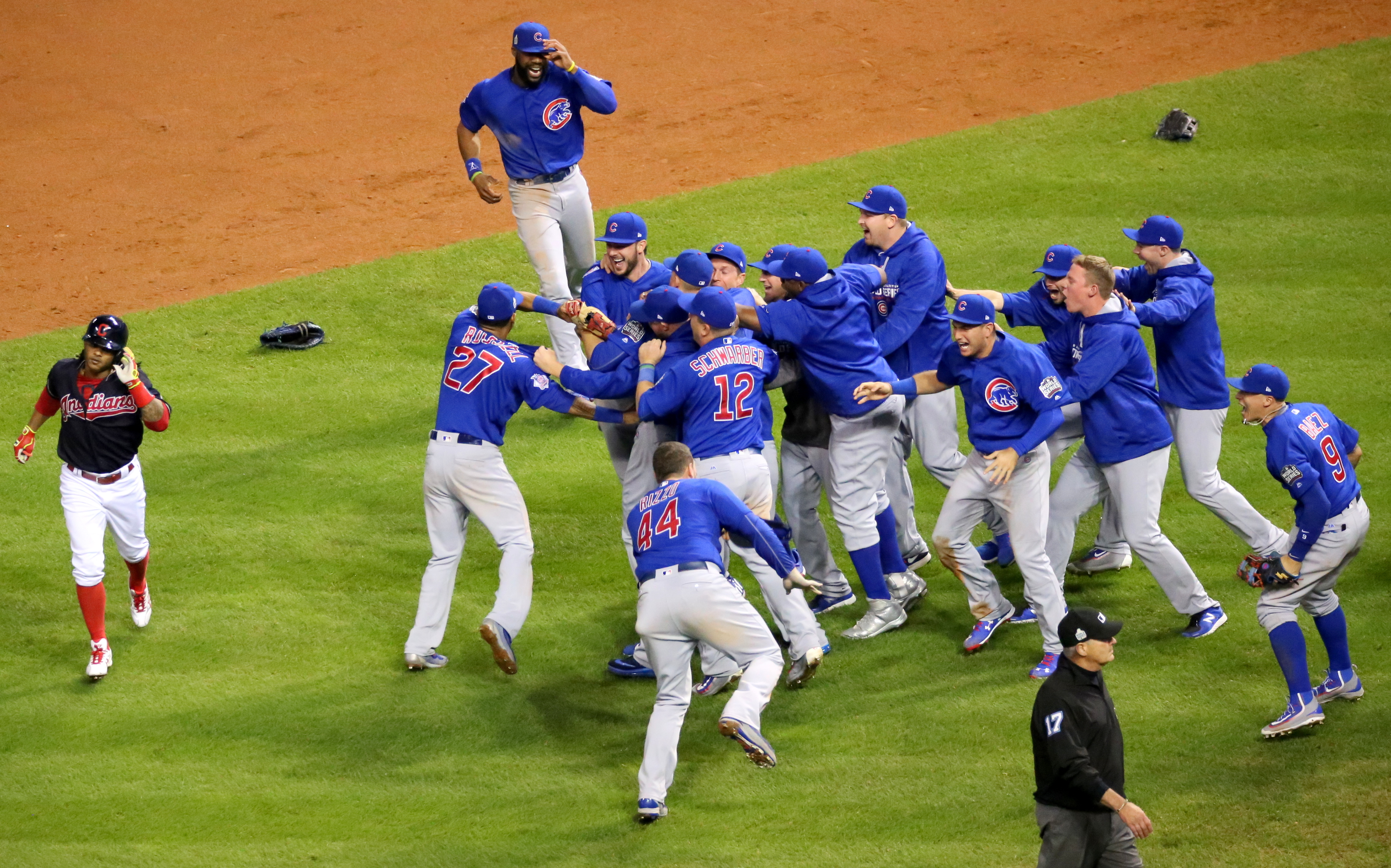 The Cubs celebrate after winning the 2016 World Series.